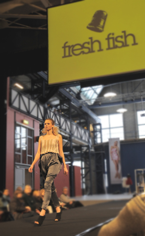 Fresh Fish in Sweden: A model walking down a catwalk